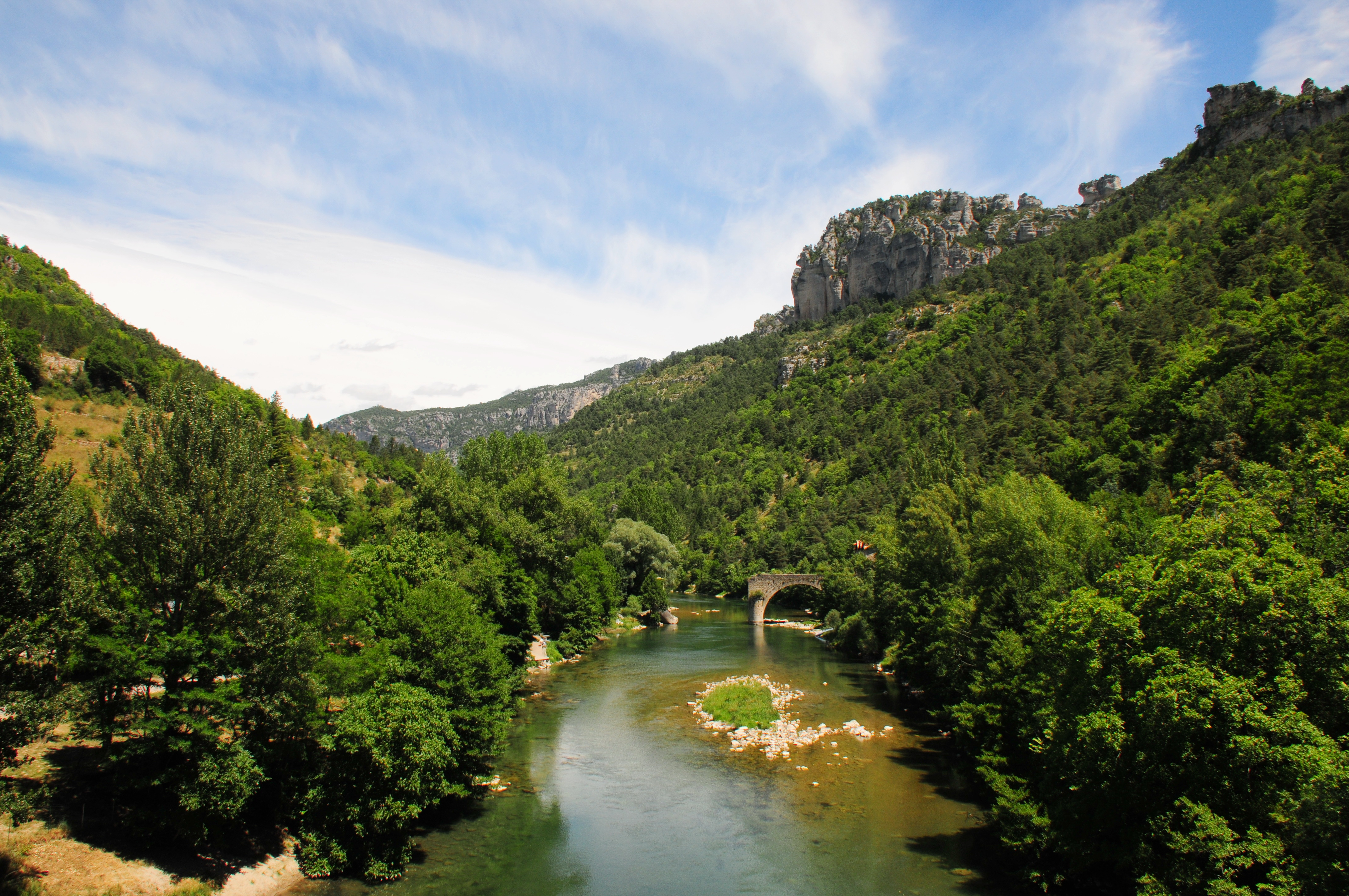 Looking North into the Tarn canyon from the bridge at Le Rozier